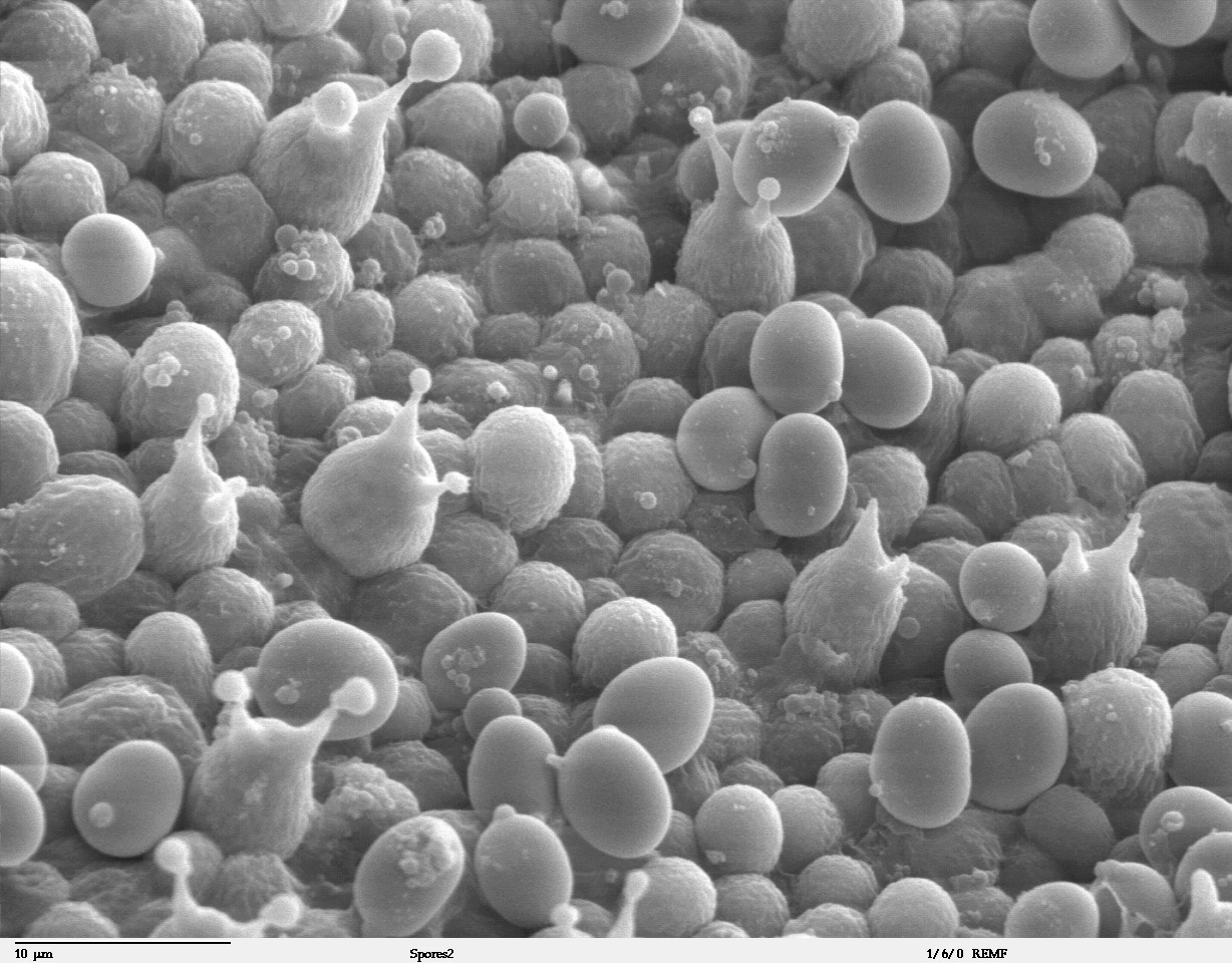 Scanning electron microscope image of budding mushroom spores. Agaricus bisporus